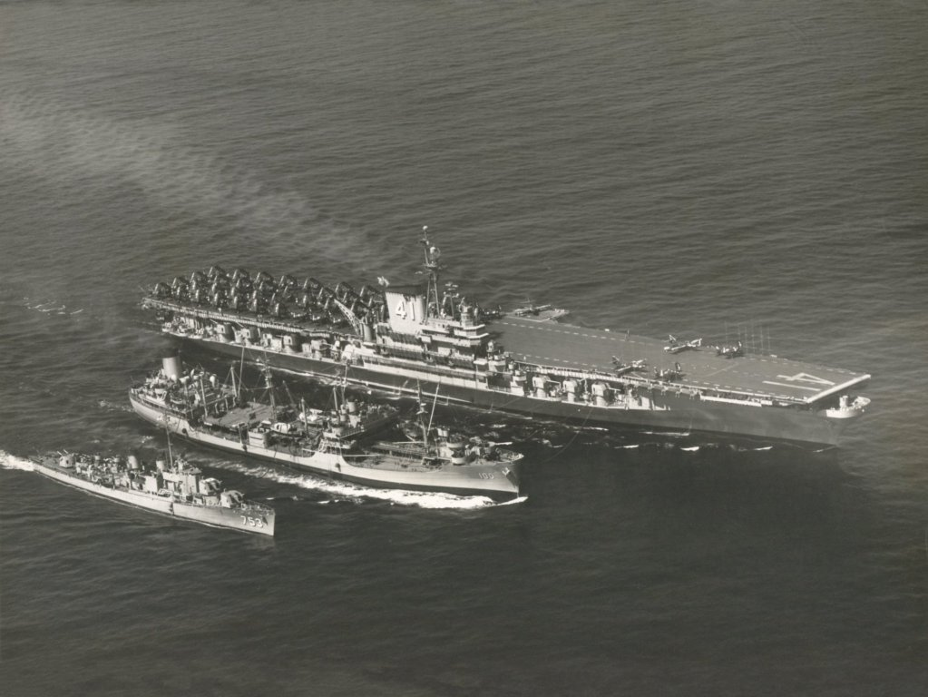 The U.S. Navy fleet oiler USS Chukawan (AO-100) refueling the aircraft carrier USS Midway (CVB-41) and the destroyer USS John R. Pierce (DD-753), in 1950. Midway, with assigned Carrier Air Group 7 (CVG-7), was deployed to the Mediterranean Sea from 10 July to 10 November 1950.